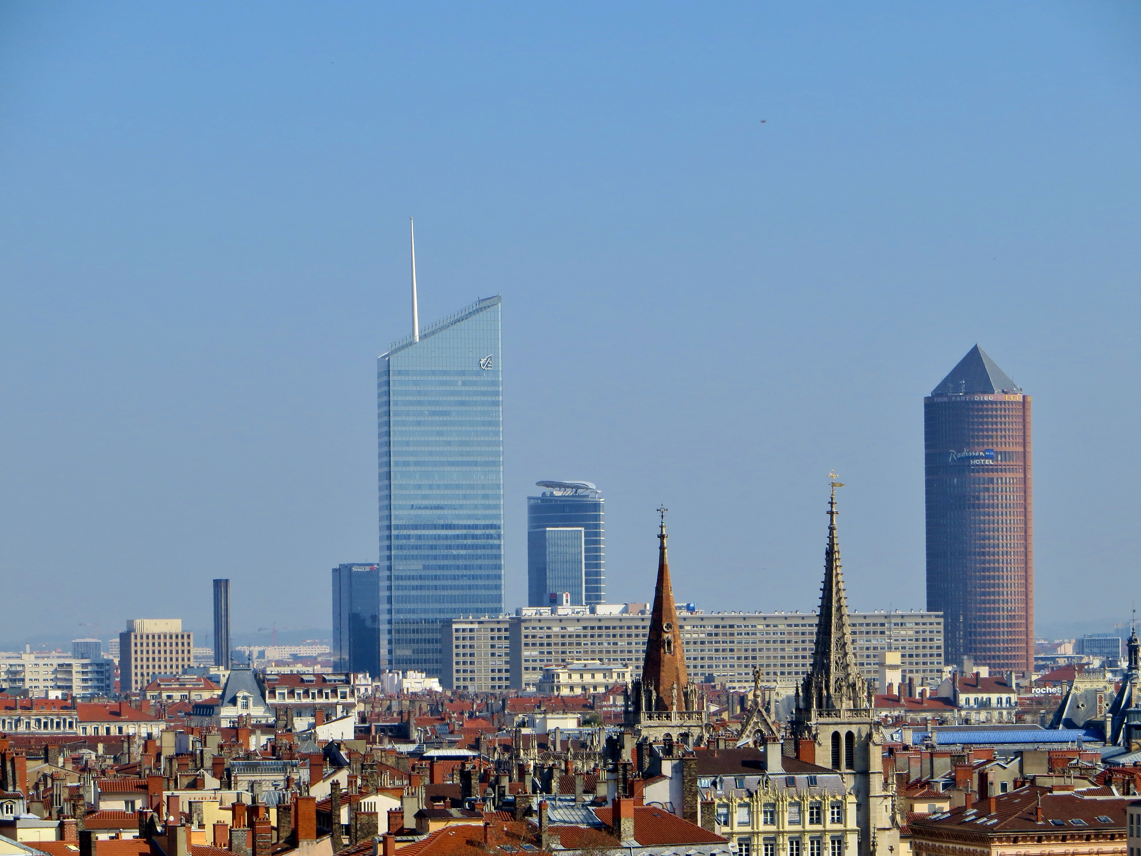 Vue on the Central Business District of Lyon, called "La Part-Dieu" and its Skyscrapers, from the west.